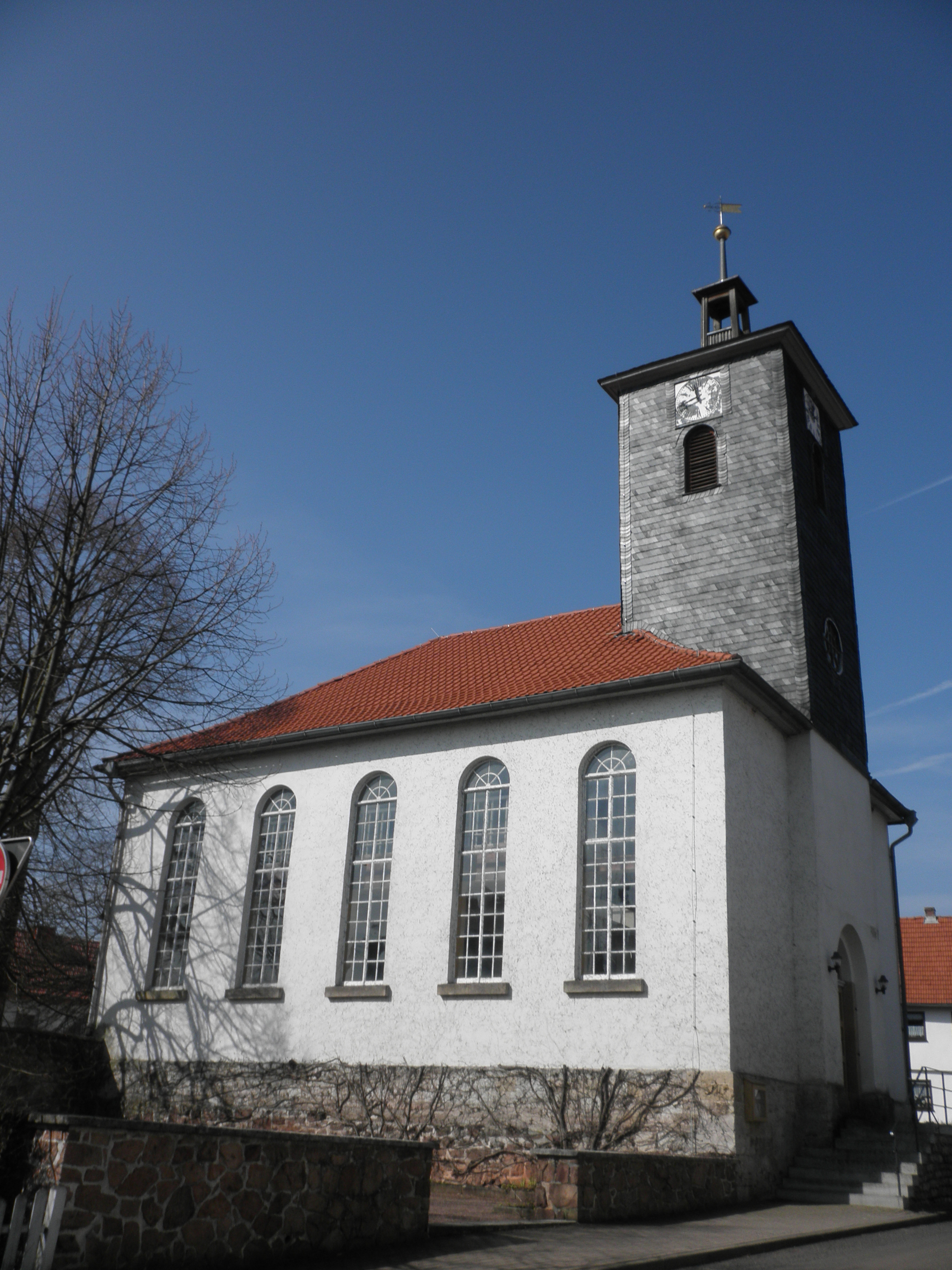 Church in Etterwinden in Thuringia